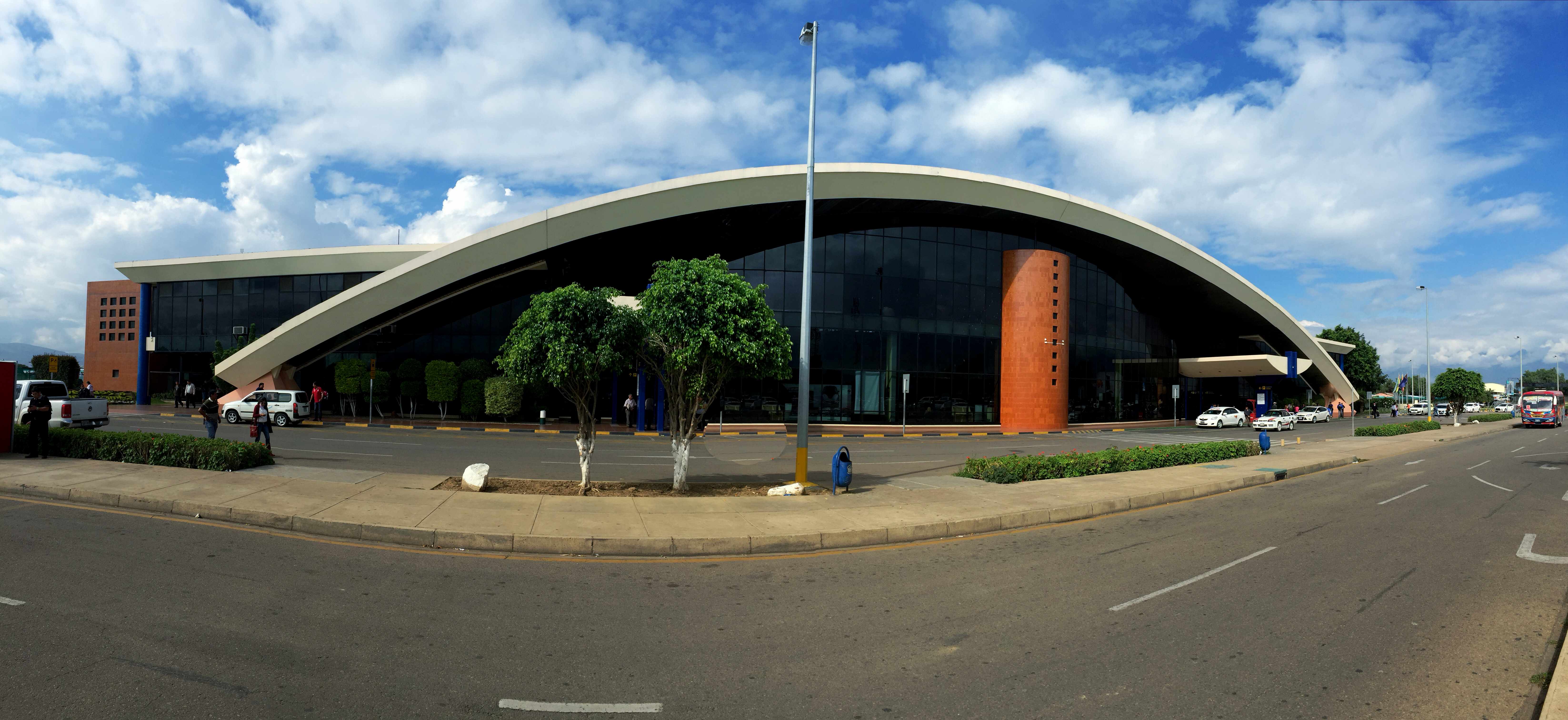 Jorge Wilstermann International Airport.